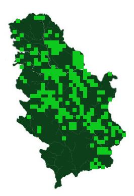 Rasprsotranjenje vrste u Srbiji (Alciphron)